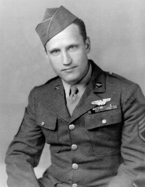 Jake De Shazer, official USAF photo